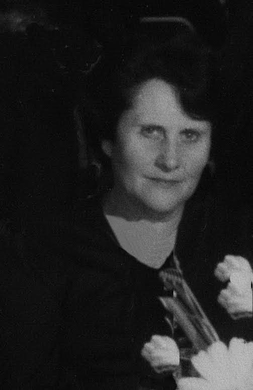 Portrait of Prof. Edith Gaton